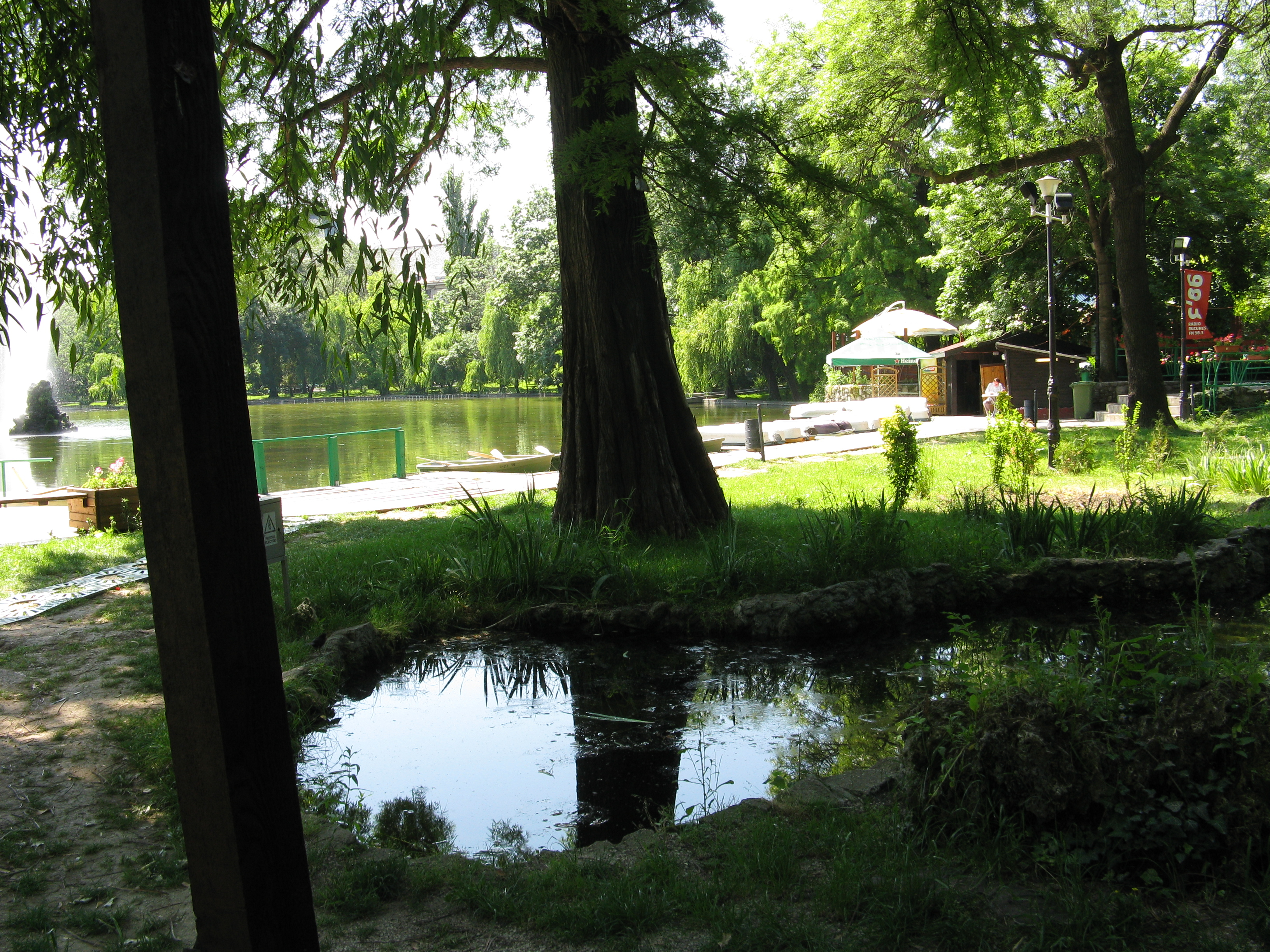 Cişmigiu summer 2010